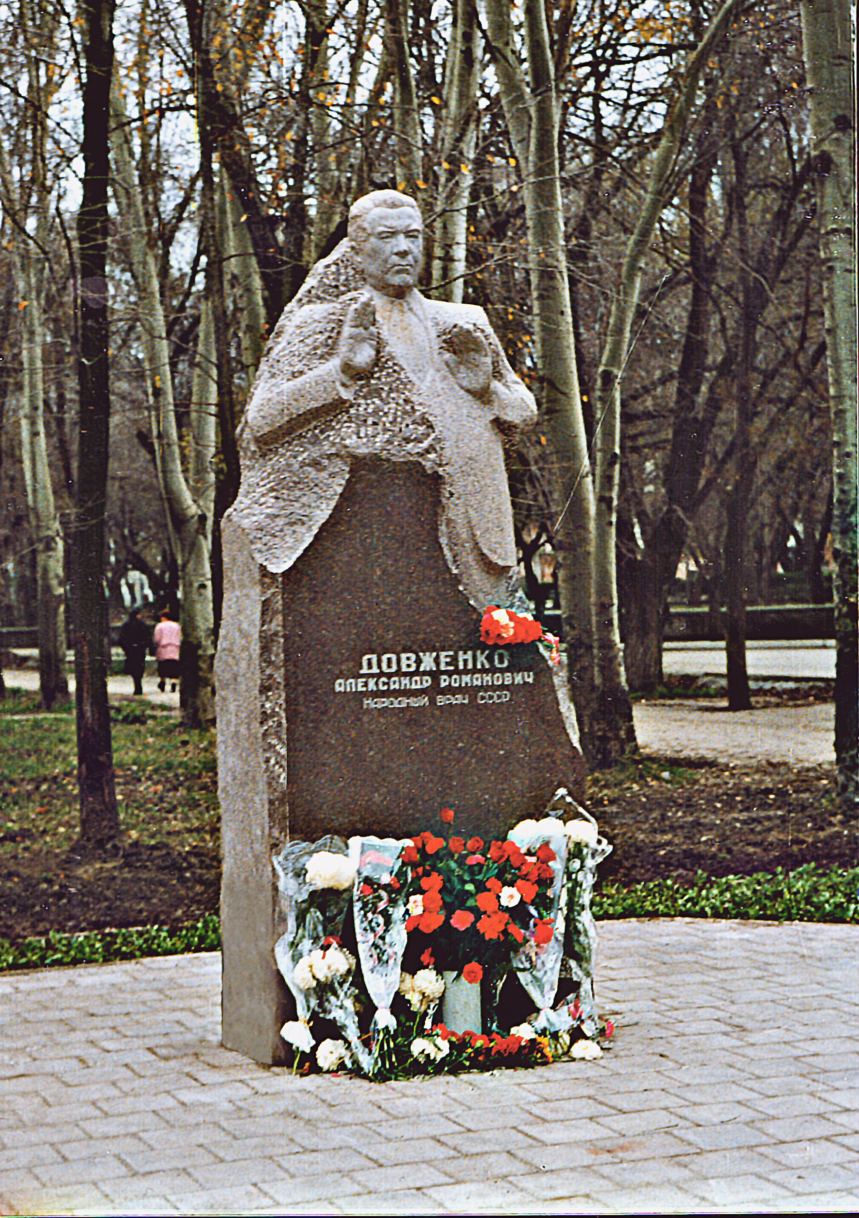 The monument to doctor Alexander Romanovich Dovzhenko. Feodosiya 1996. Sculptor: Ures V. A.